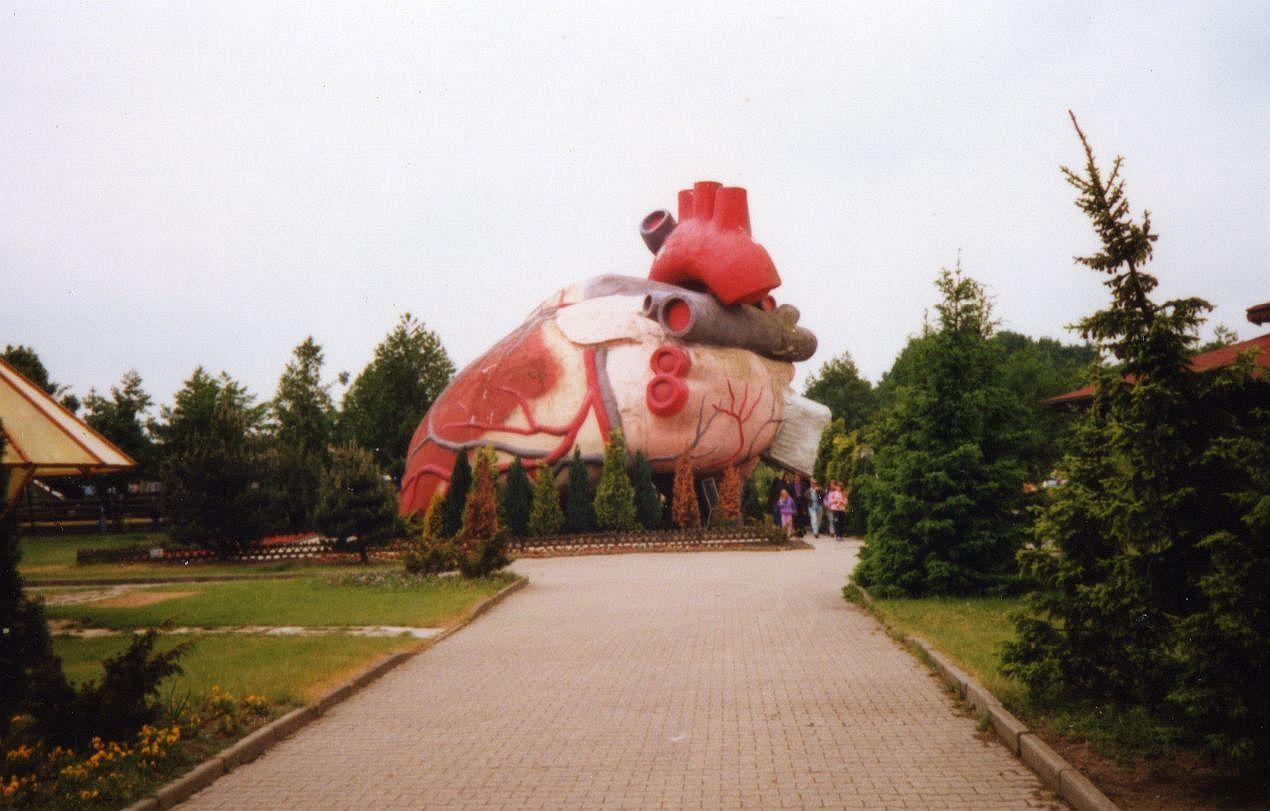 Begehbares Herz, Traumlandpark, Bottrop-Kirchhellen, Germany, biggest heart to walk through